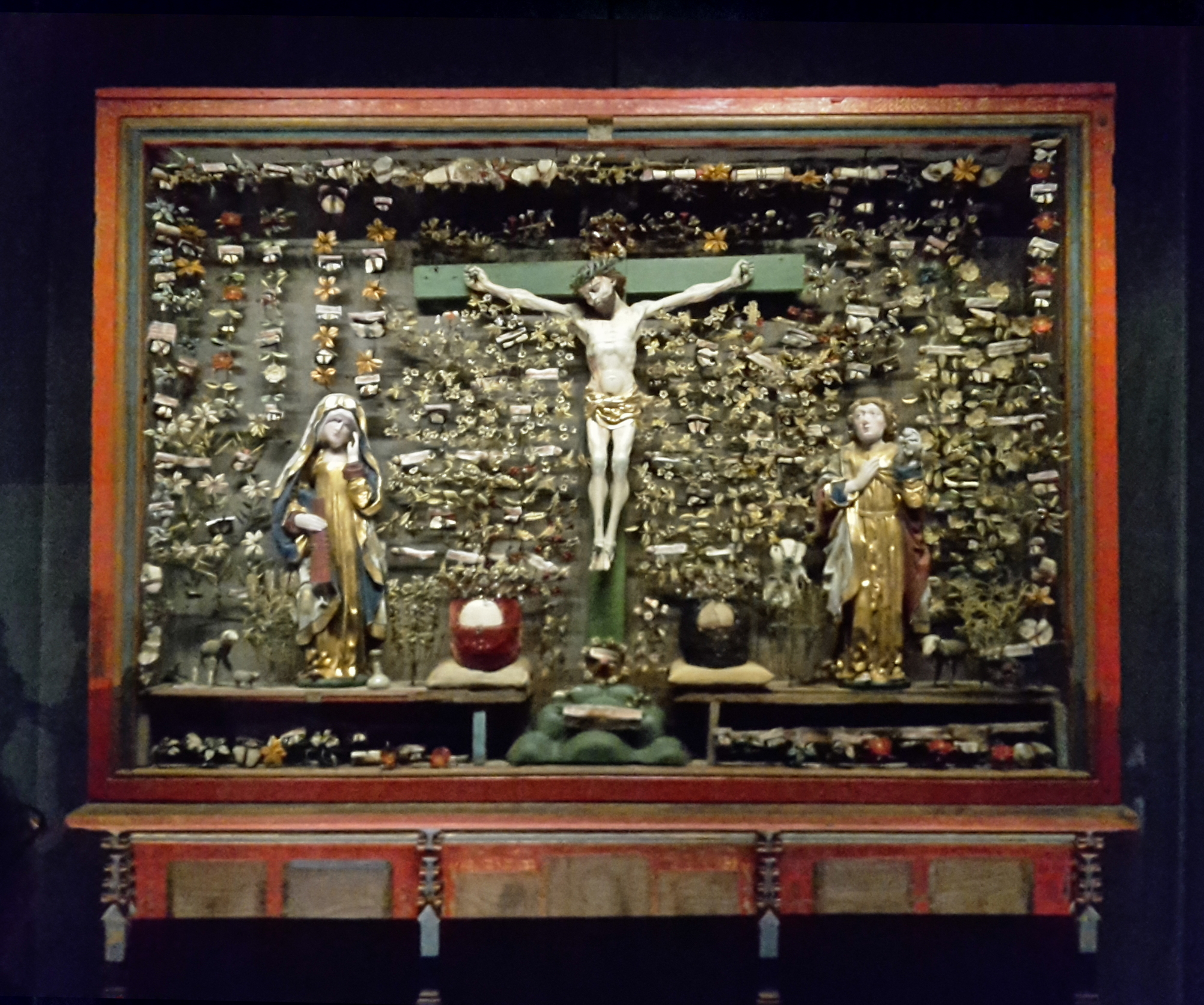 Reliquary shrine in the shape of a paradise garden. Hosting 132 named and further anonym relics.